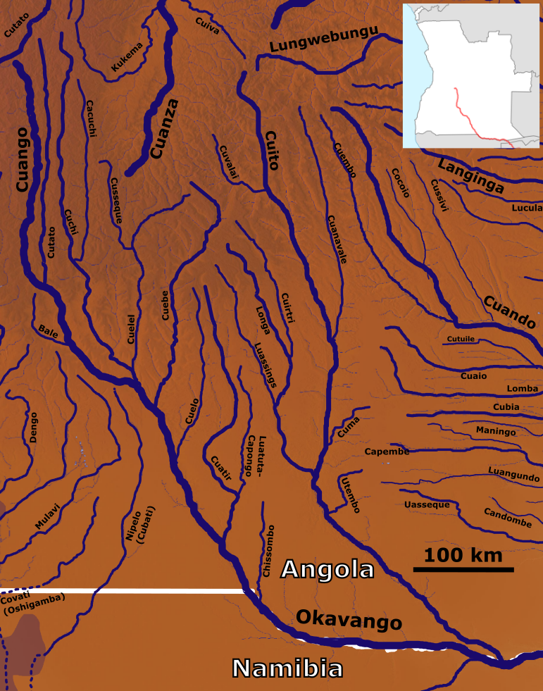 The Okavango River with its Tributaries_OSM